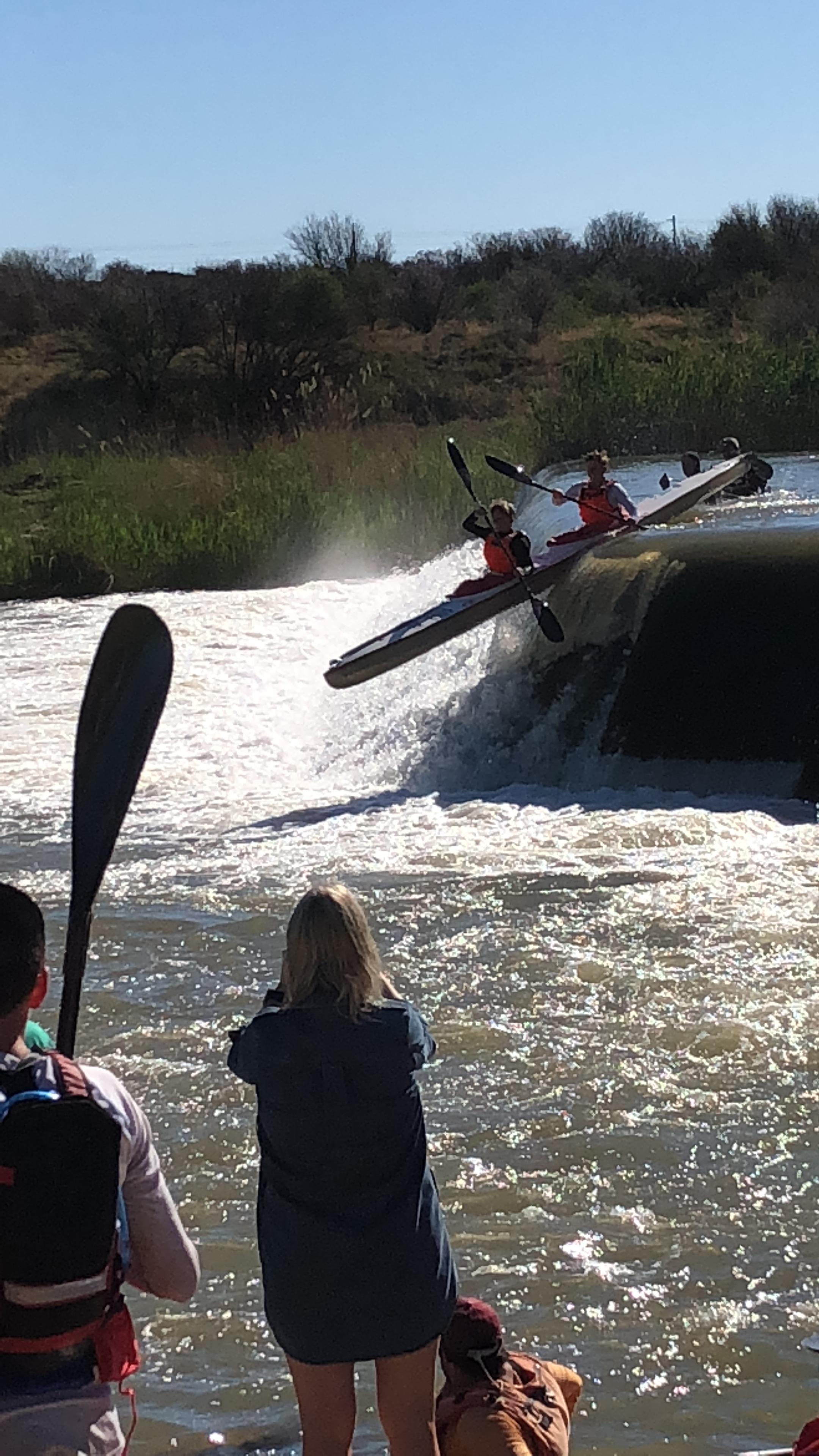 K2 Canoe shooting Craddock Weir on day 2 of the 2018 Fish River Canoe Marathon This is an image with the theme "Play" from: South Africa